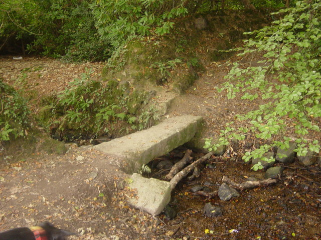 Stream crossing This crossing is over a small stream in the woods near Tregrehan.